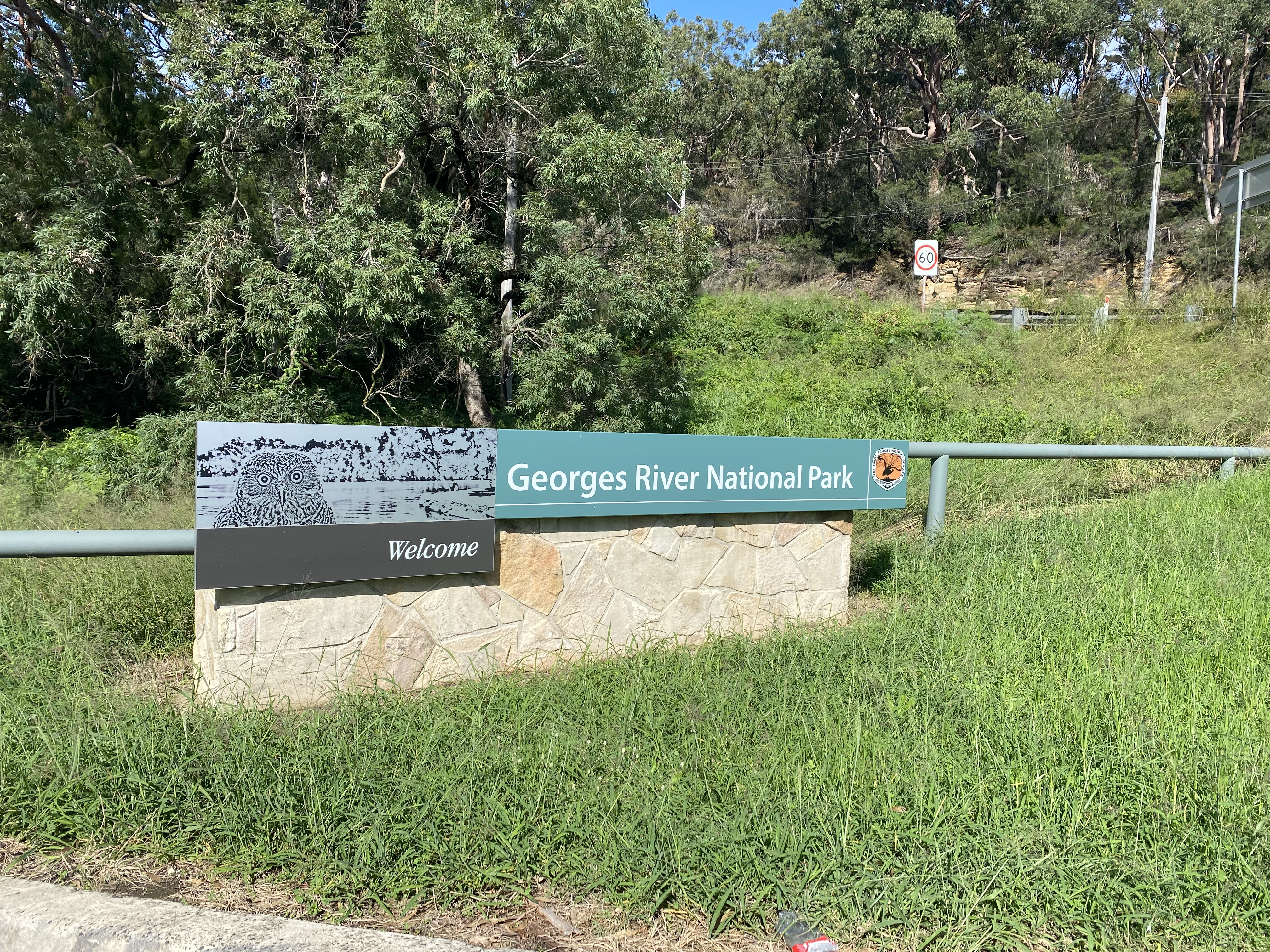 Included in my article Georges River National Park